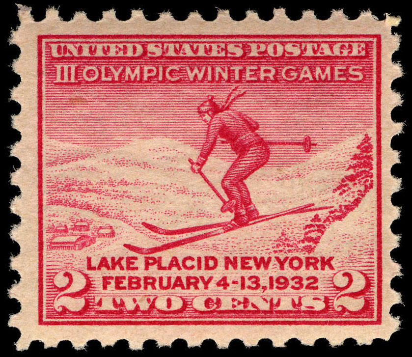 III Olympic Winter Games Lake Placid 2-cent 1932 issue U.S. stamp. The 1932 Winter Olympics were held in Lake Placid, New York from February 4-13, 1932.